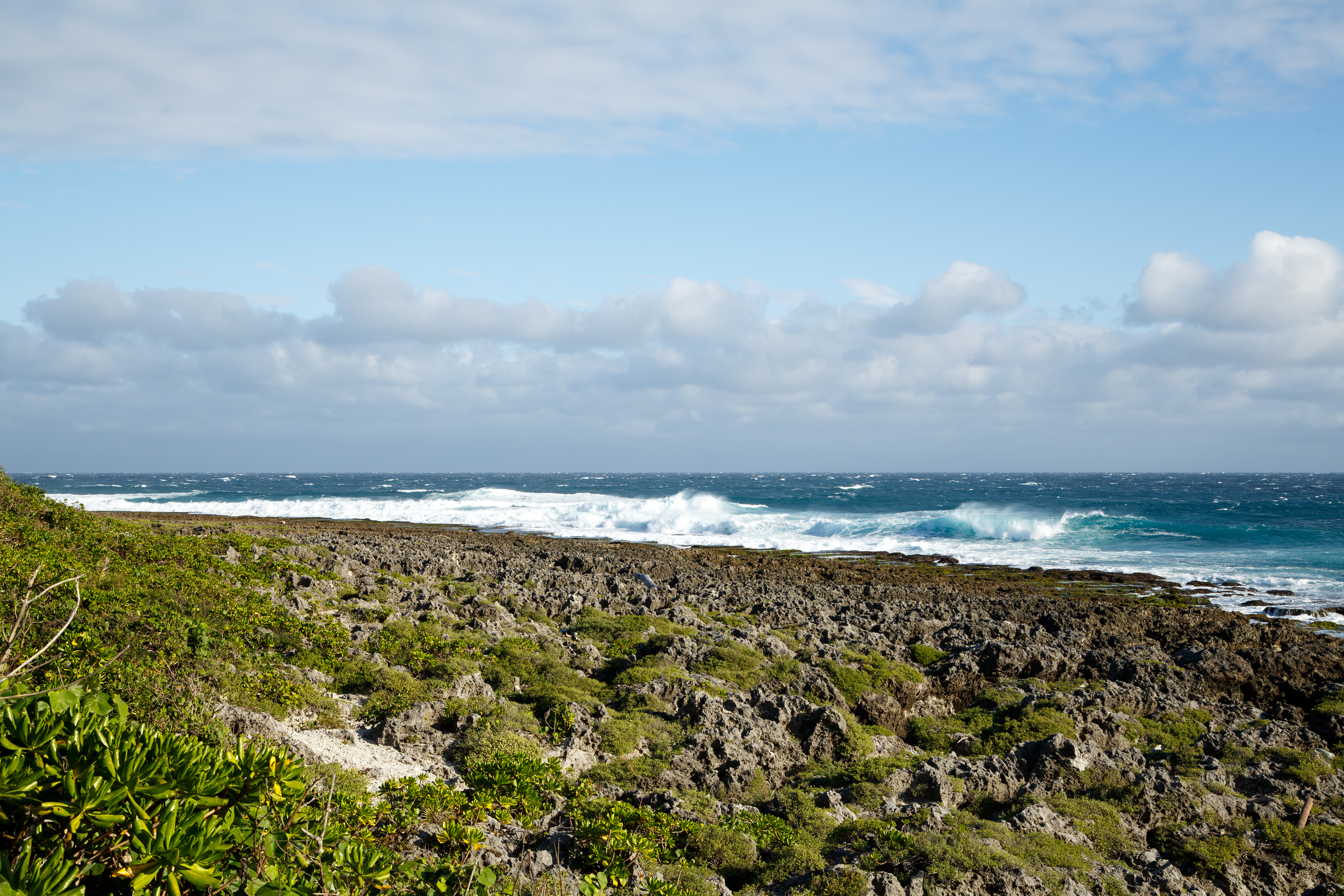 Hengchun Township, Taiwan: The southernmost point of Taiwan, some 50 m southwest of the markerstone